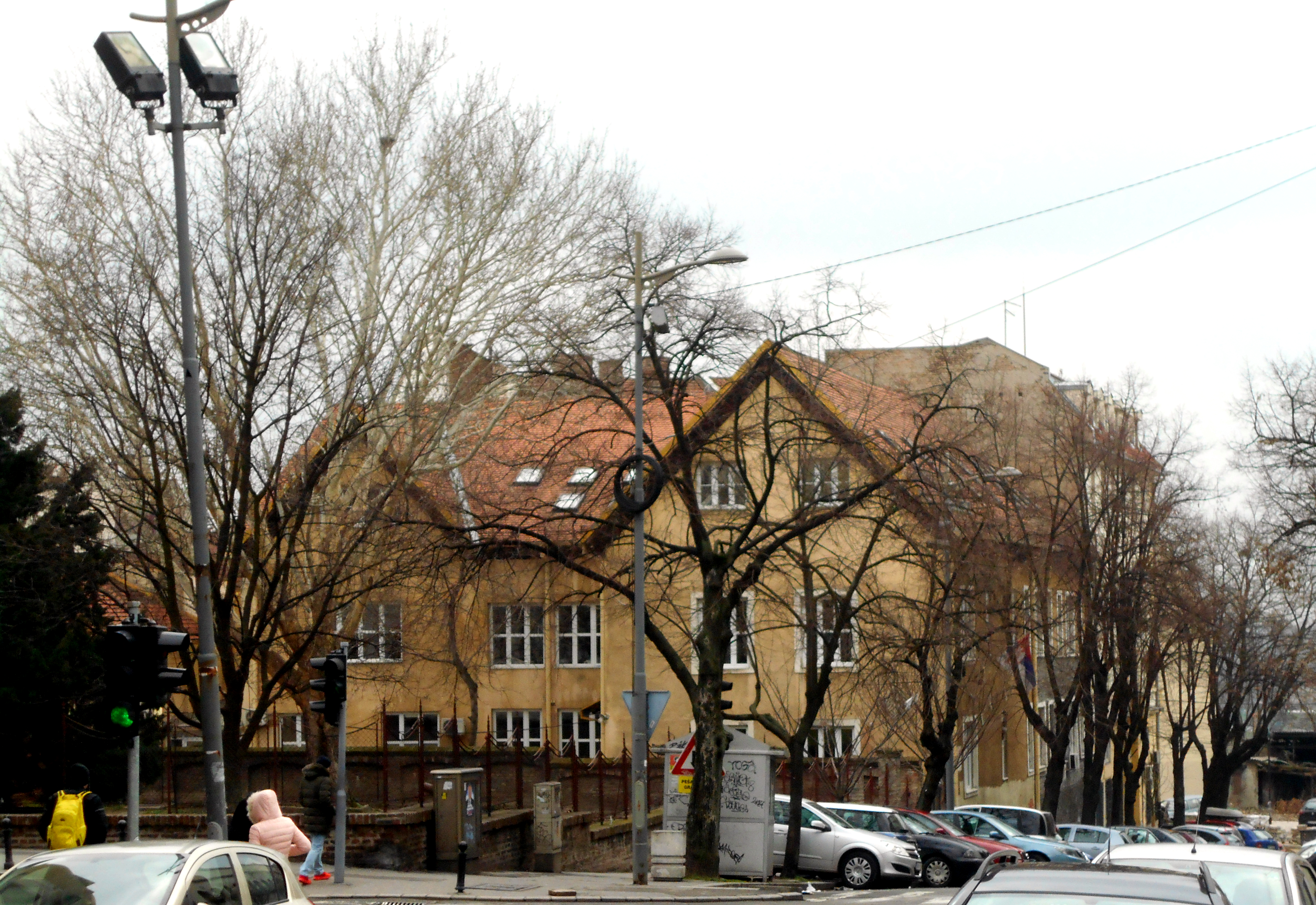 The building of the former Royal Art School in Belgrade (Kralja Petra 4), in which today is the Faculty of Applied Arts